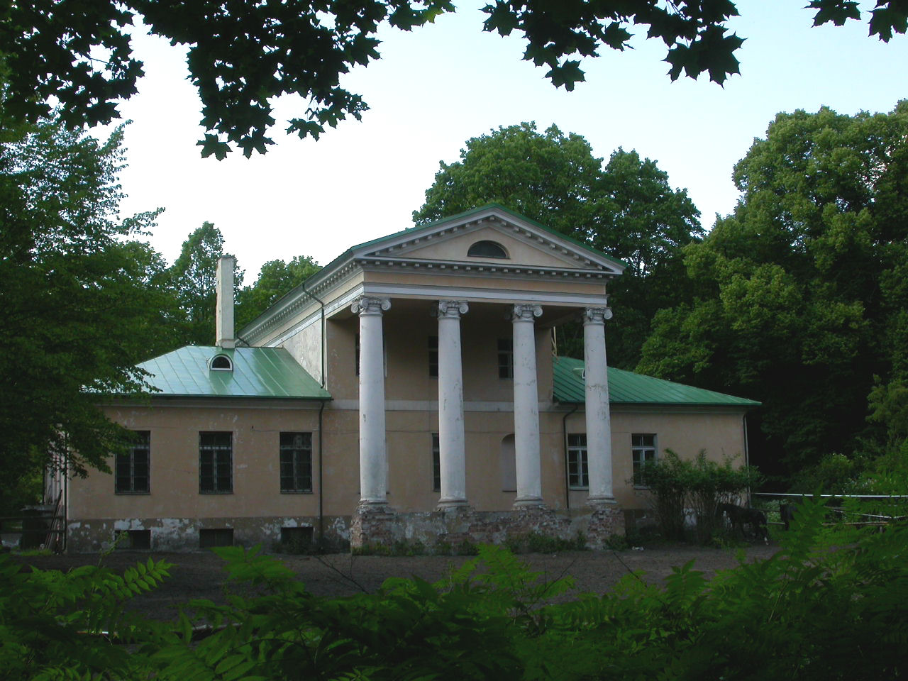 Bišumuiža manor house in Riga